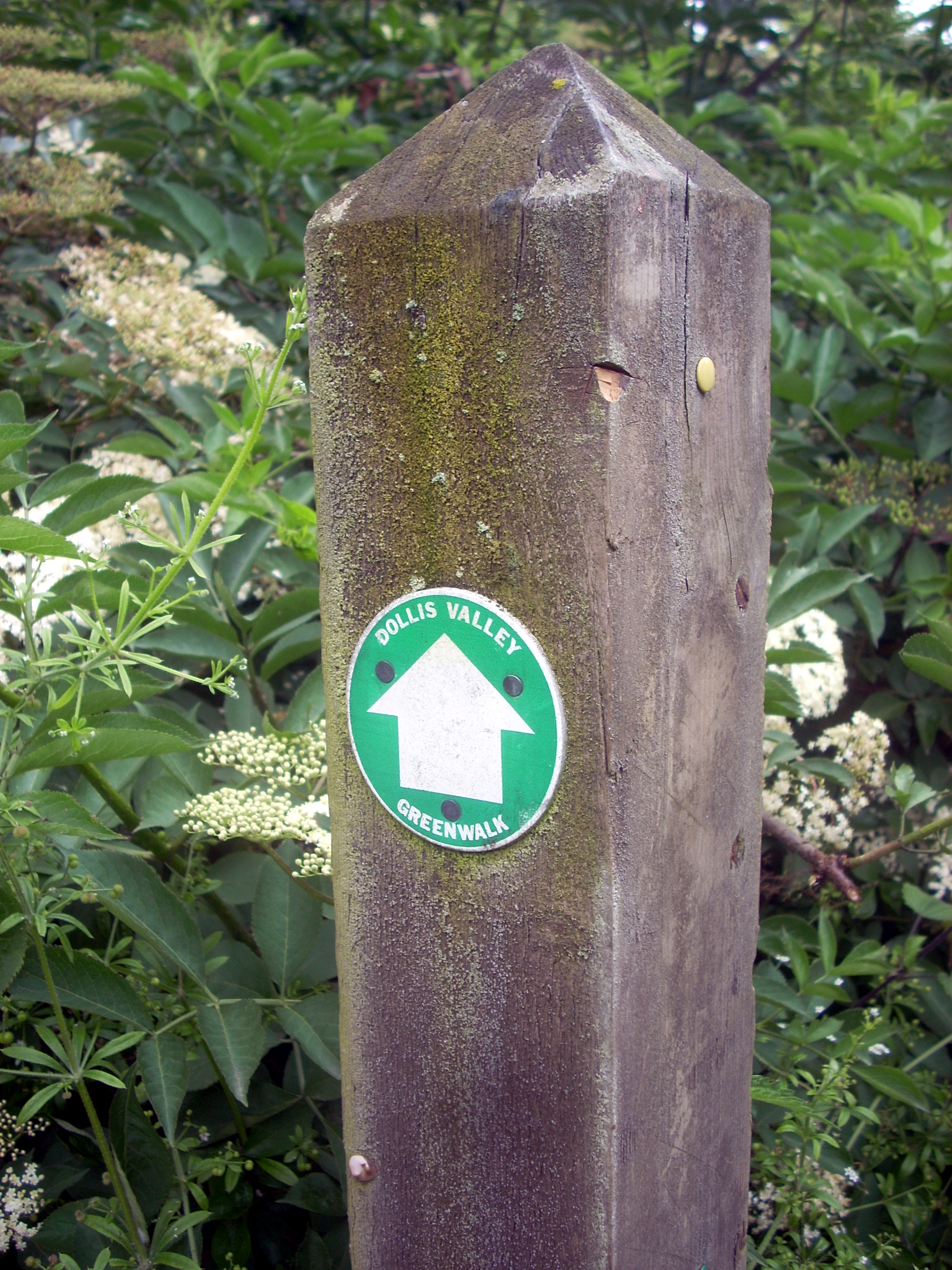 Dollis Valley Geenwalk post